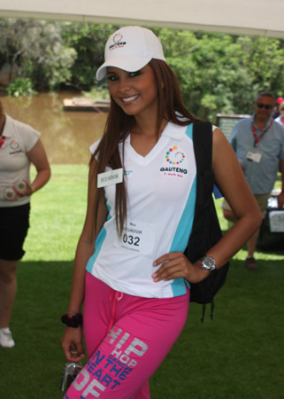 Miss Ecuador 2008 Marjorie Cevallos during Miss World 08 in Johannesburg